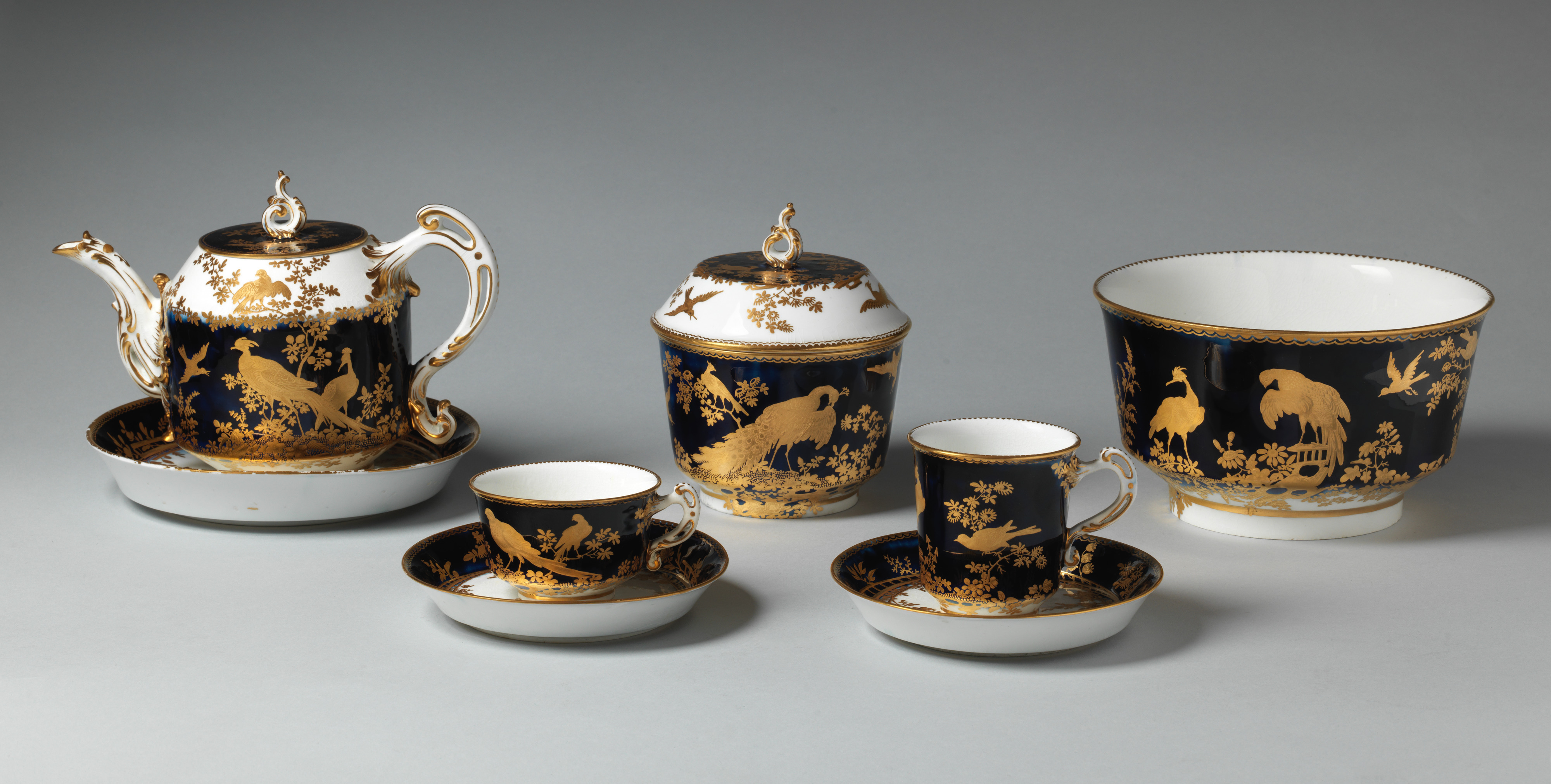 British, Chelsea; Saucers; Ceramics-Porcelain